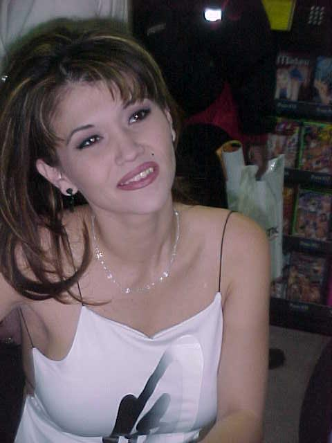 At CES January 6-9, 2000